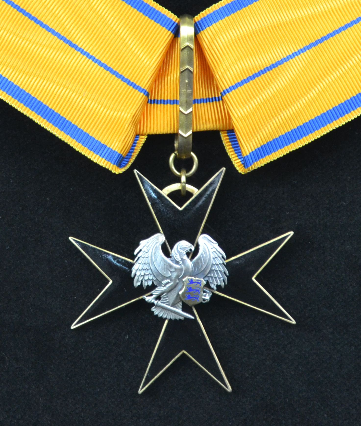 Estonia. Order of the Cross of the Eagle 2nd class, badge and ribbon. The exhibition of the Estonian State Decorations at the National Library of Estonia in Tallinn.